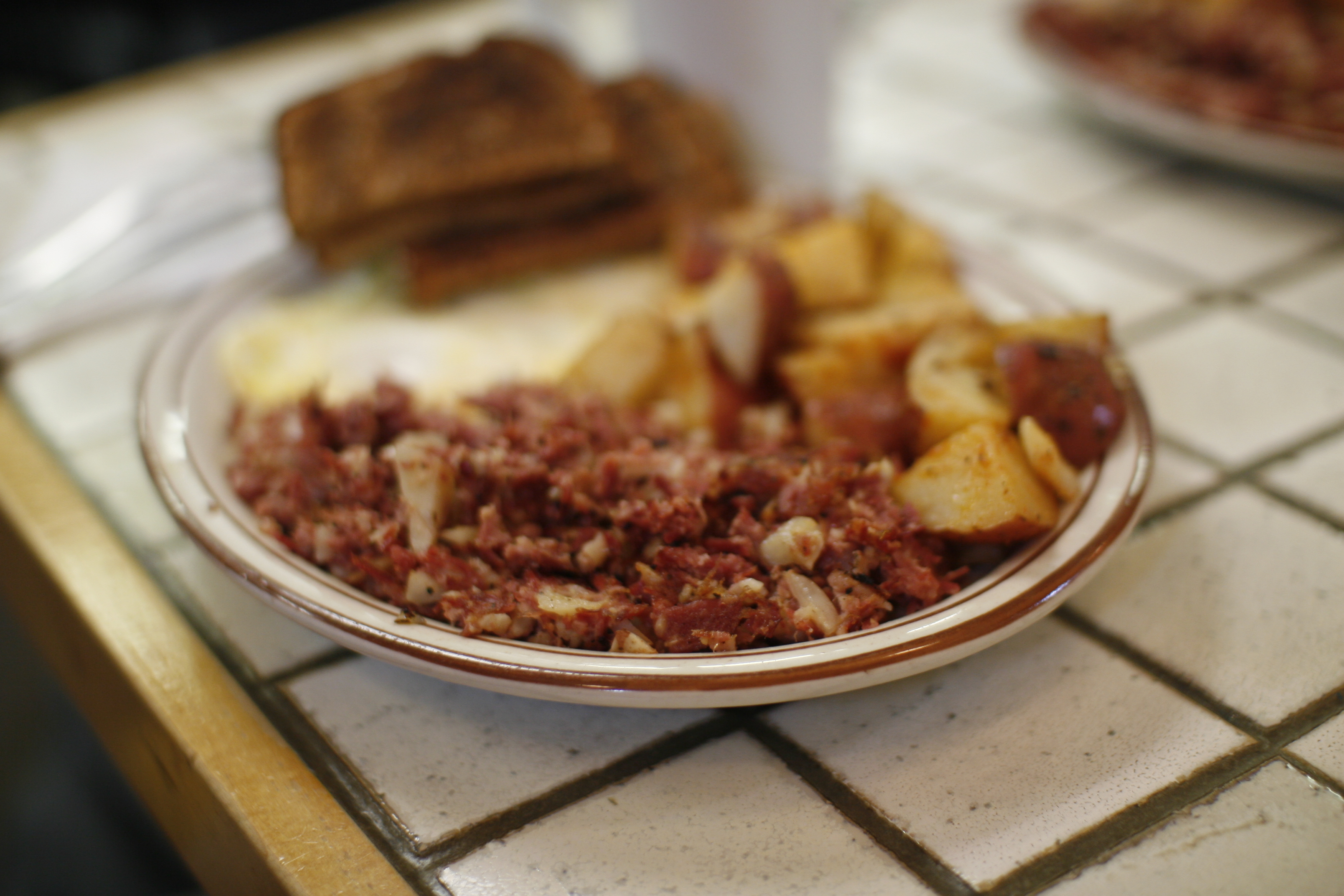 Corned beef hash at the Creamery (Nina's breakfast)